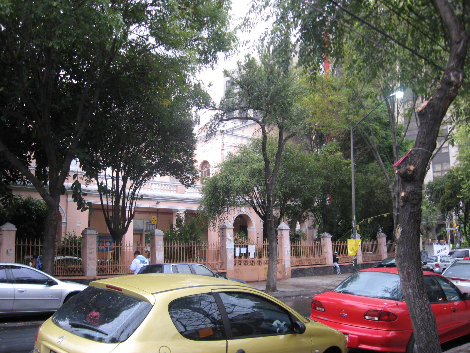 Mansion which belonged to Porfirio Diaz on Dr Jimenez Street in Colonia Doctores in Mexico City